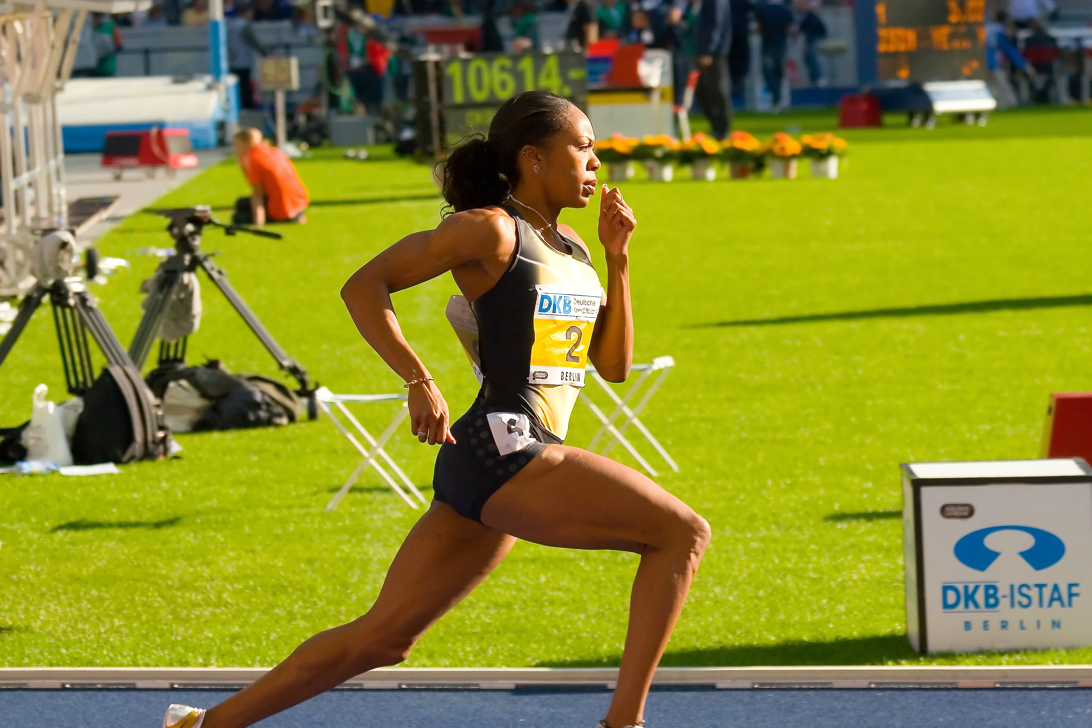 Sanya Richards in Berlin (2007)